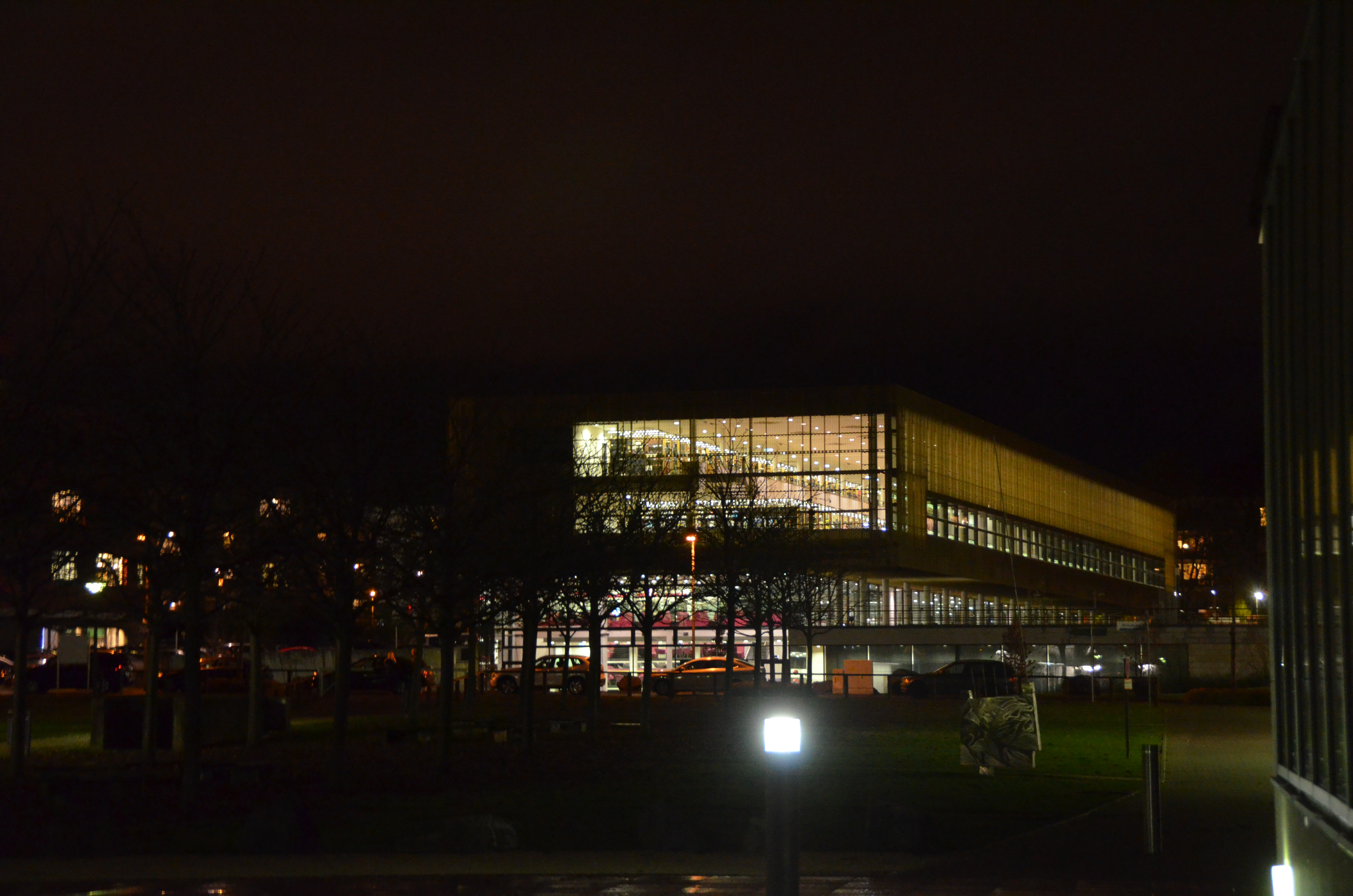 Otto-Stern-Zentrum (OSZ)